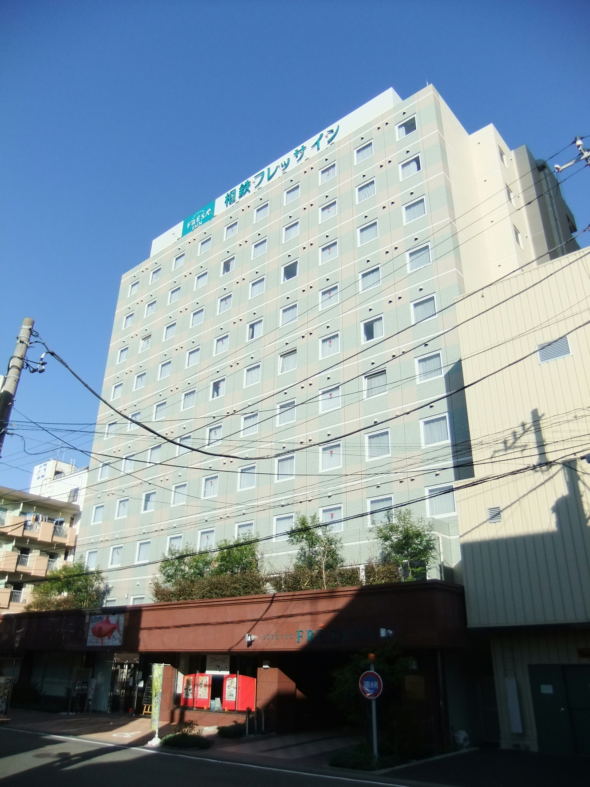 SOTETSU FRÉSA INN, Fujisawa-Shonandai (Kanagawa, Japan)